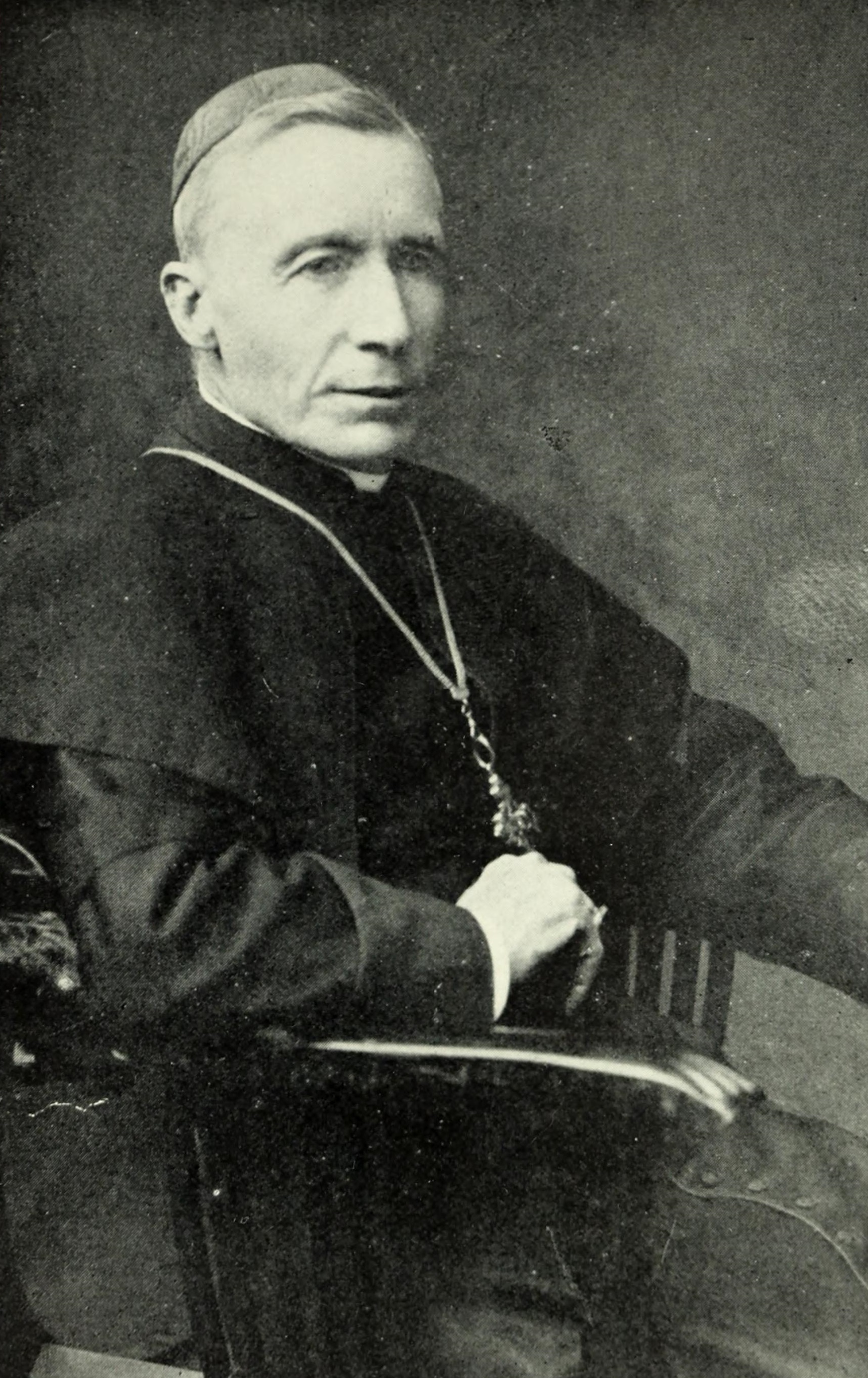 Portrait of James Gibbons